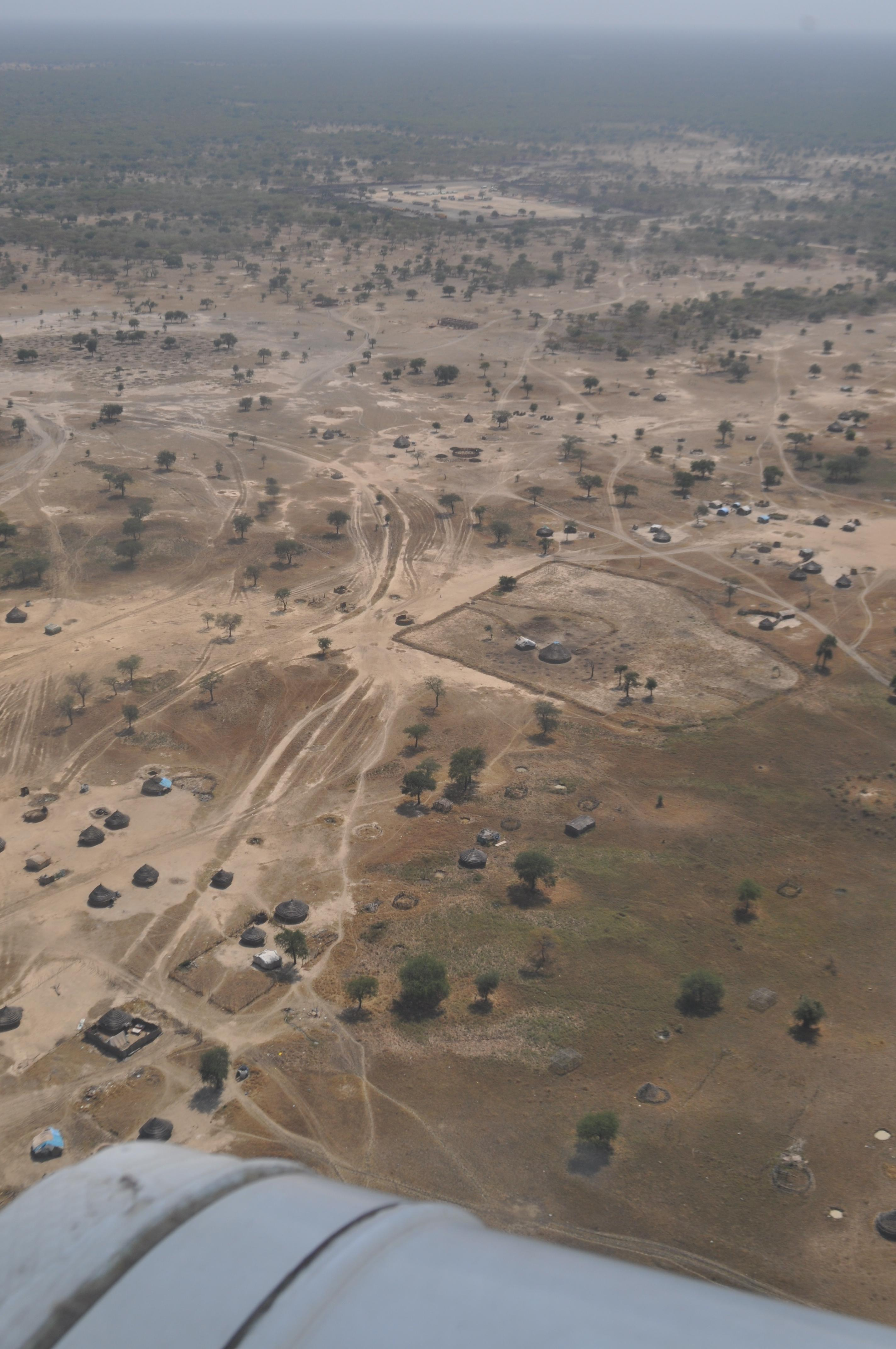 A view of Abyei from the UN helicopter.